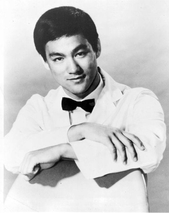 Photo of Bruce Lee as Kato, from the television series The Green Hornet.